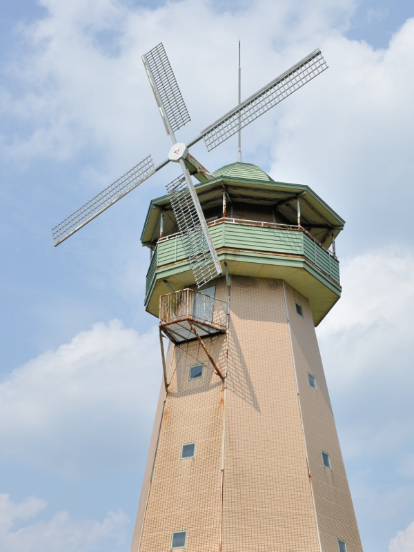 Plateau Satomi Plateau Windmill Observation deck Building